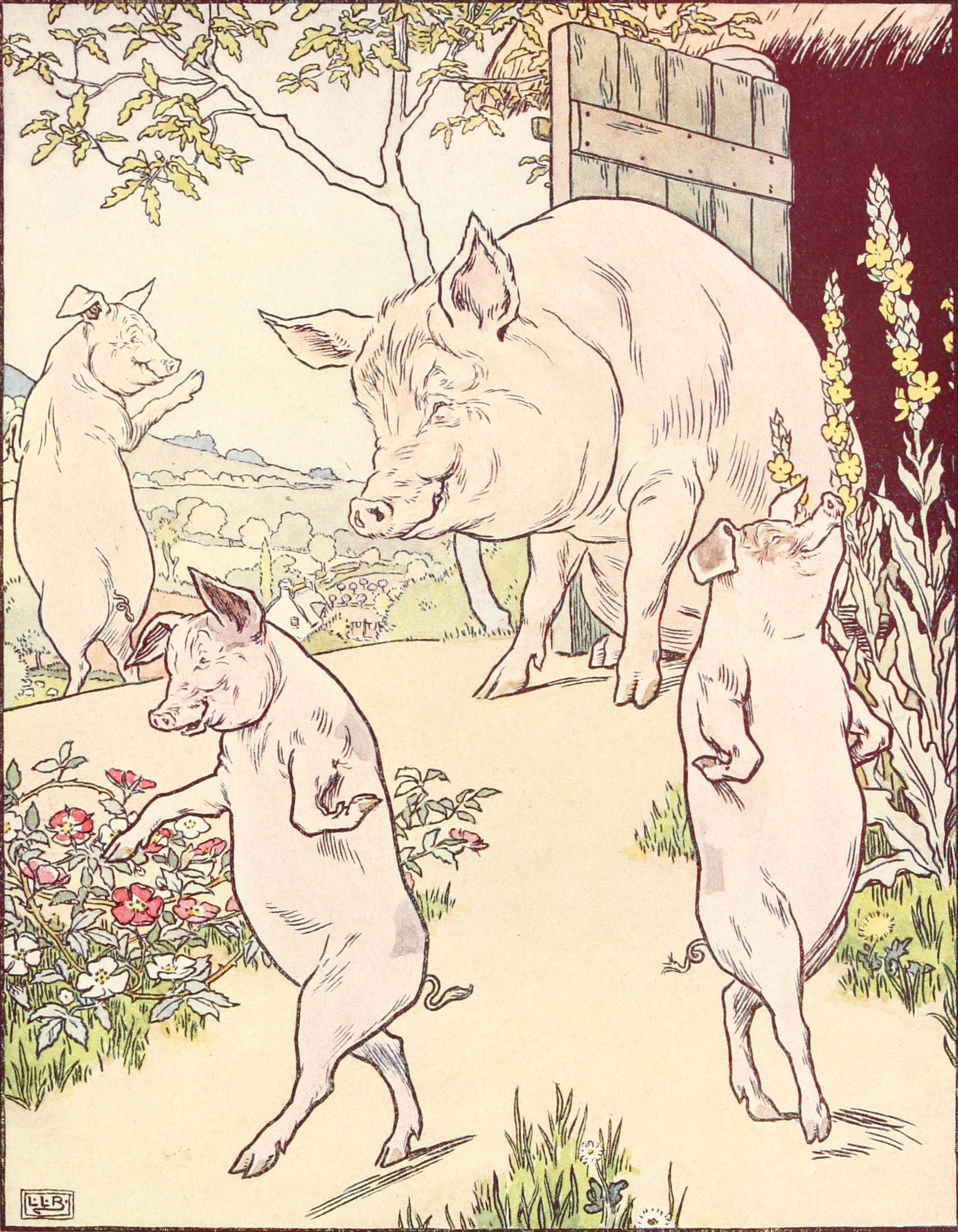 Three Little Pigs - and mother sow - Project Gutenberg eText 15661